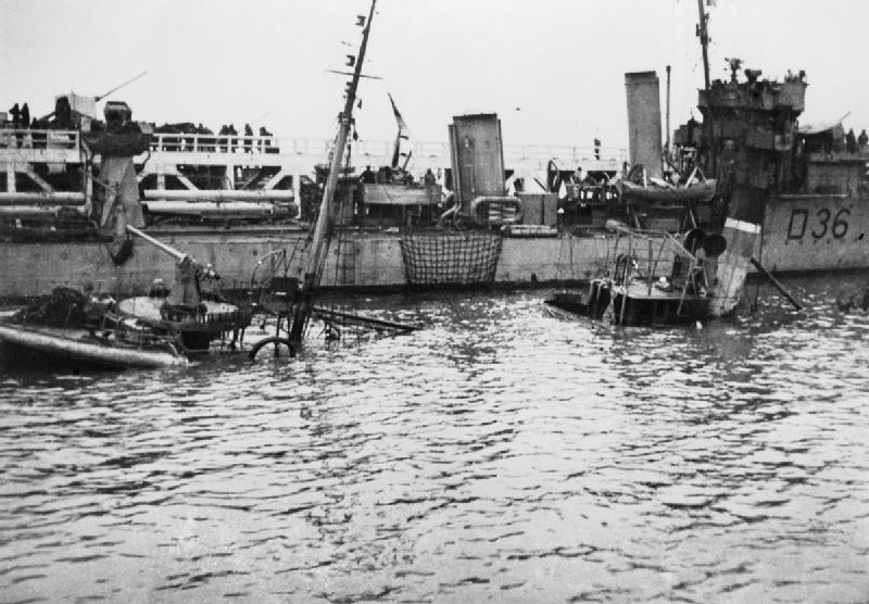 Dunkirk 1940 The Royal Navy destroyer HMS VIVACIOUS VANQUISHER alongside a sunken trawler at Dunkirk, 1940.